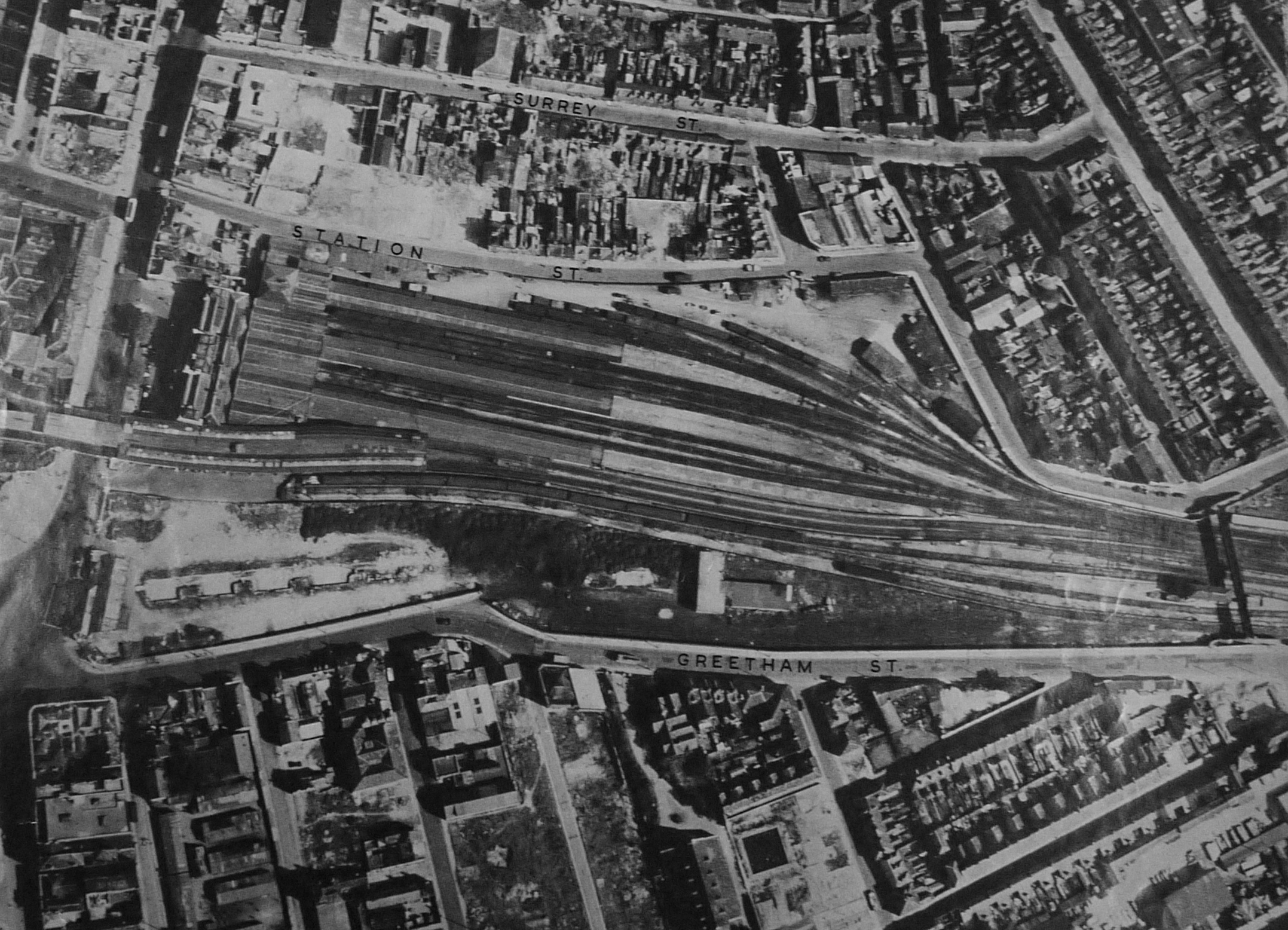 Aerial photo of Portsmouth and southsea railway station and the surrounding area from 1946